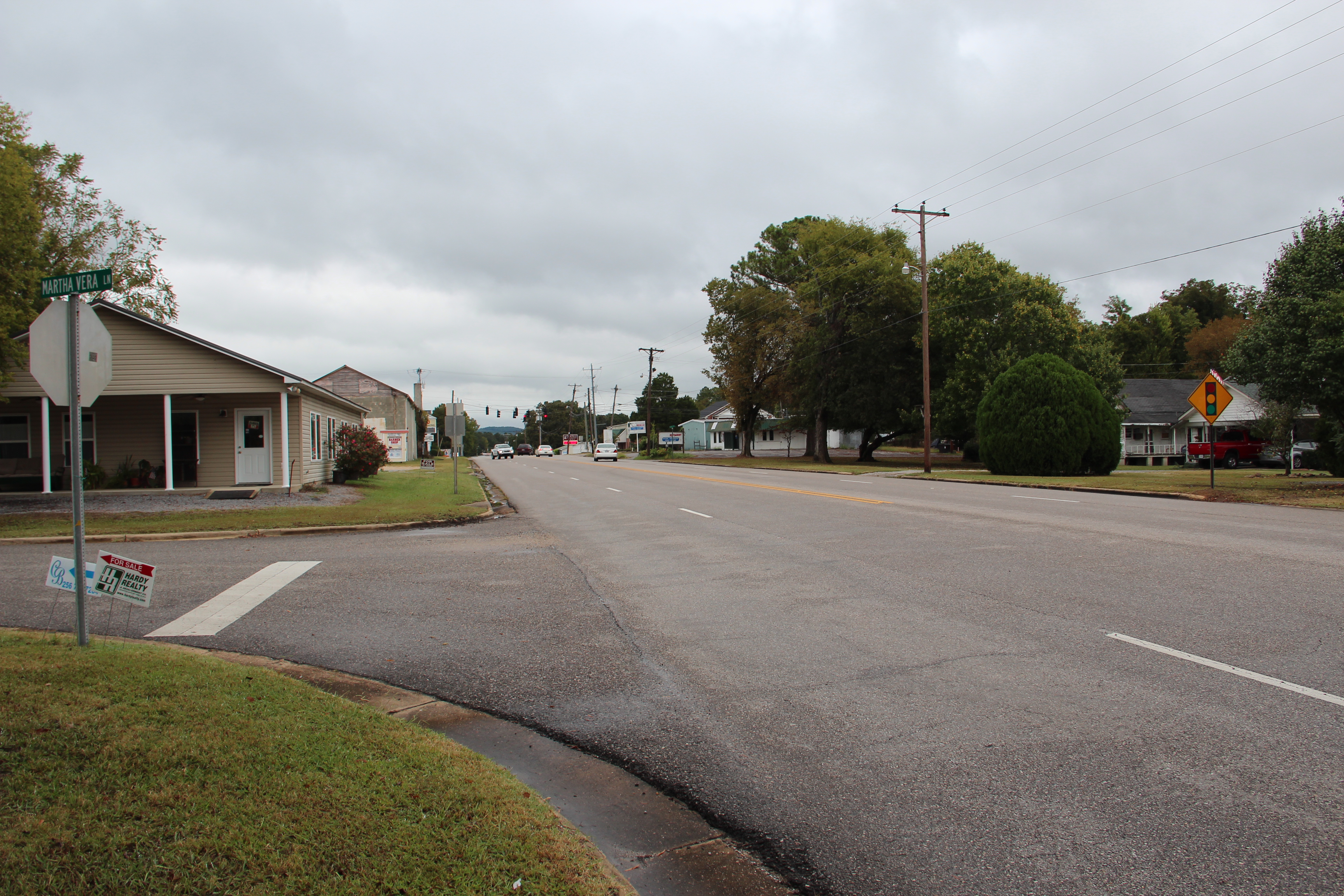 Alabama State Route 68 in Cedar Bluff